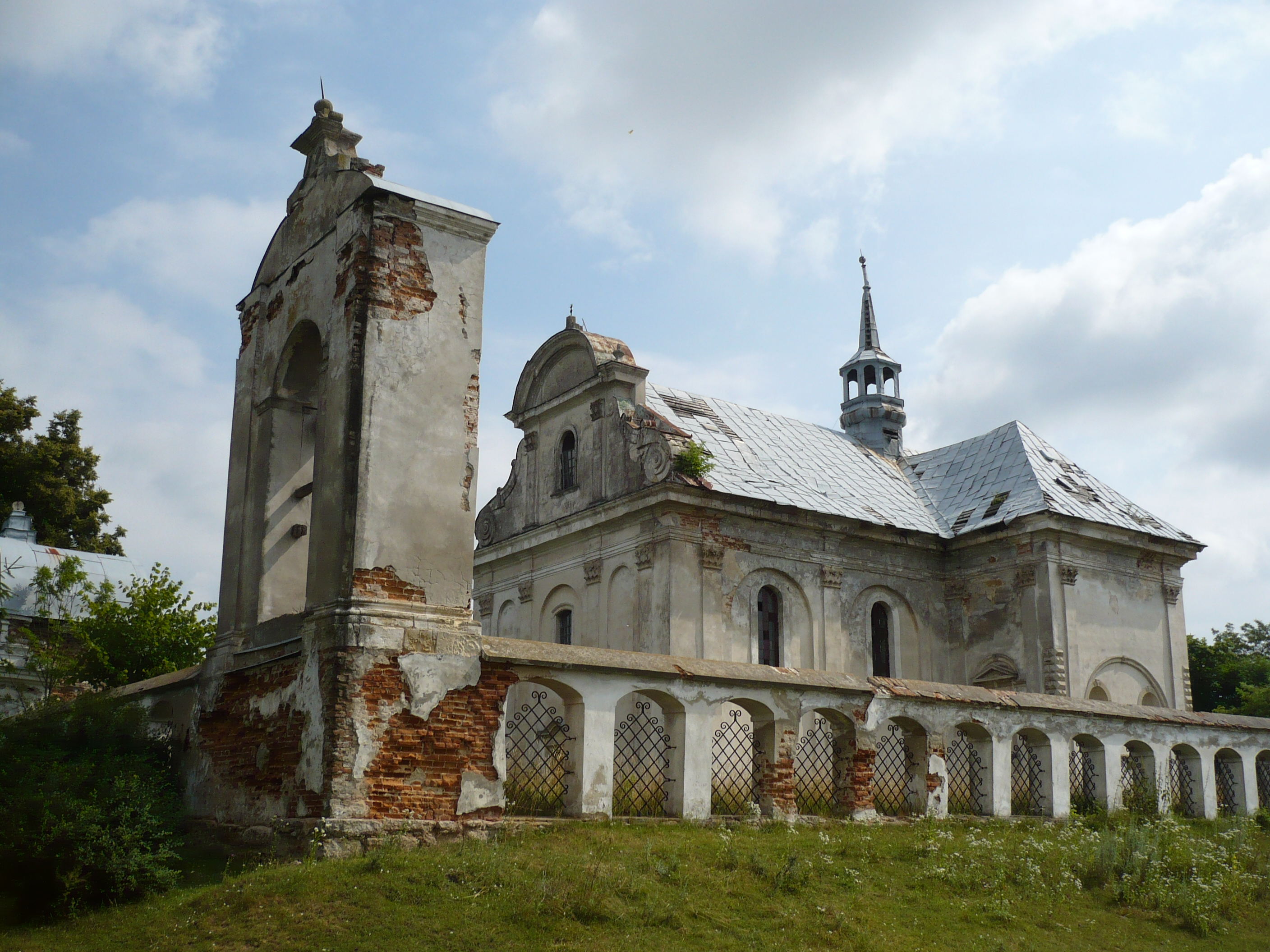 Church of the Assumption of Mary in Bilyi Kamin